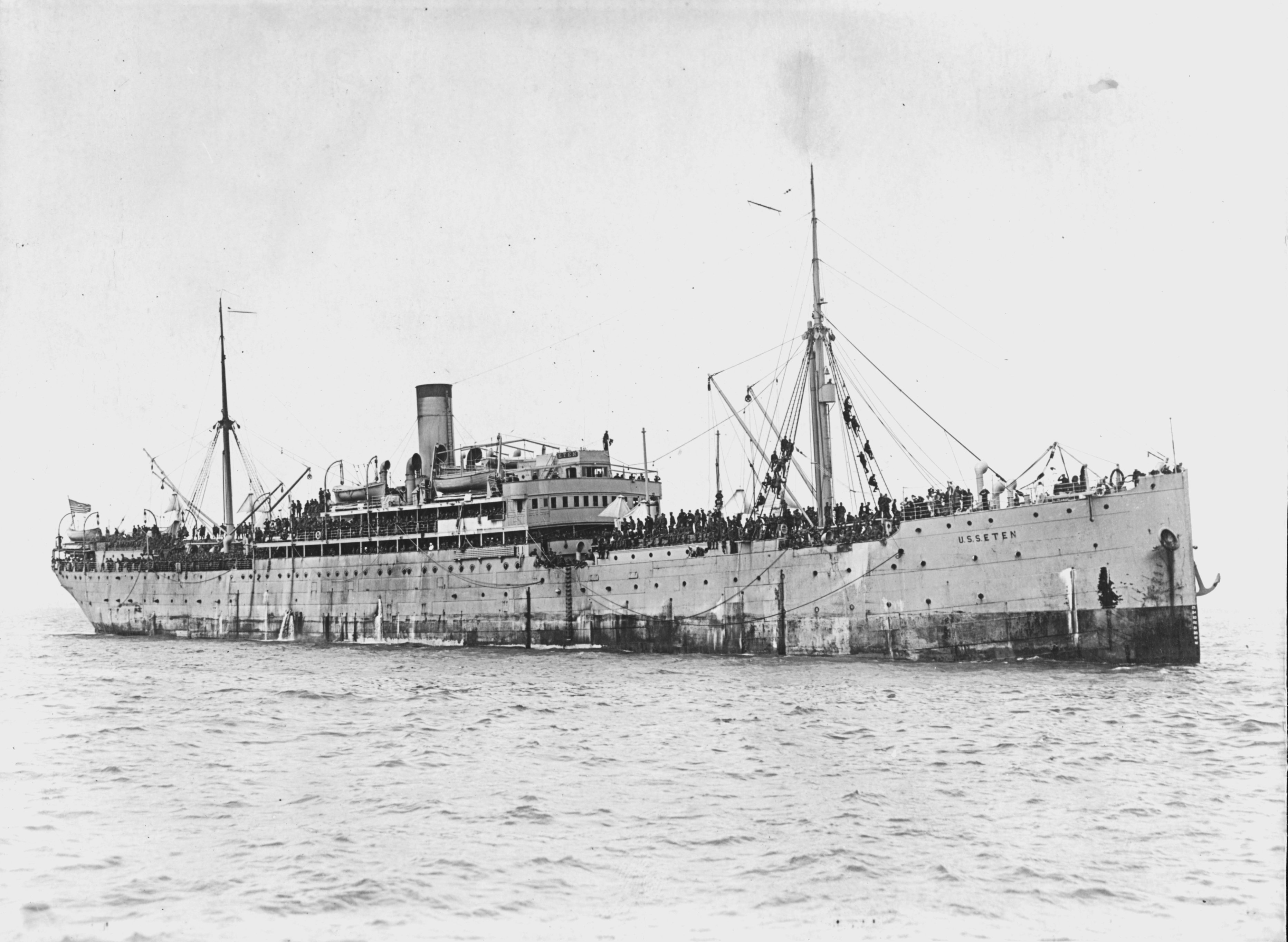 USS Eten (ID-4041) bringing troops home from Europe, ca. June-August 1919.